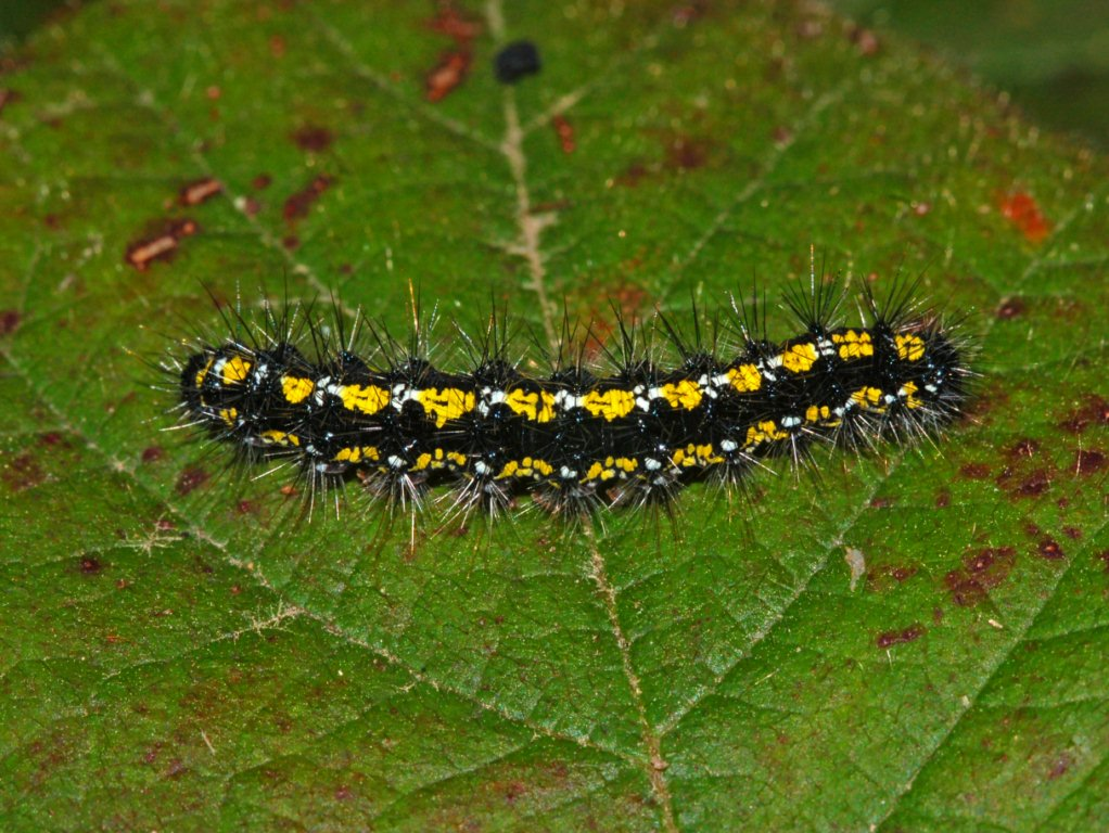 Arctiidae - Callimorpha dominula